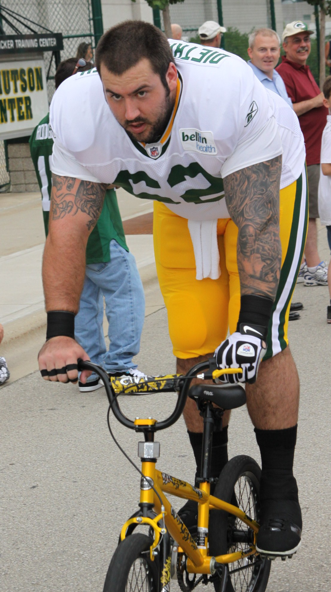 Green Bay Packers Evan Dietrich-Smith riding a fan’s bicycle at pre-season training camp, Green Bay, Wisconsin, August 1, 2011